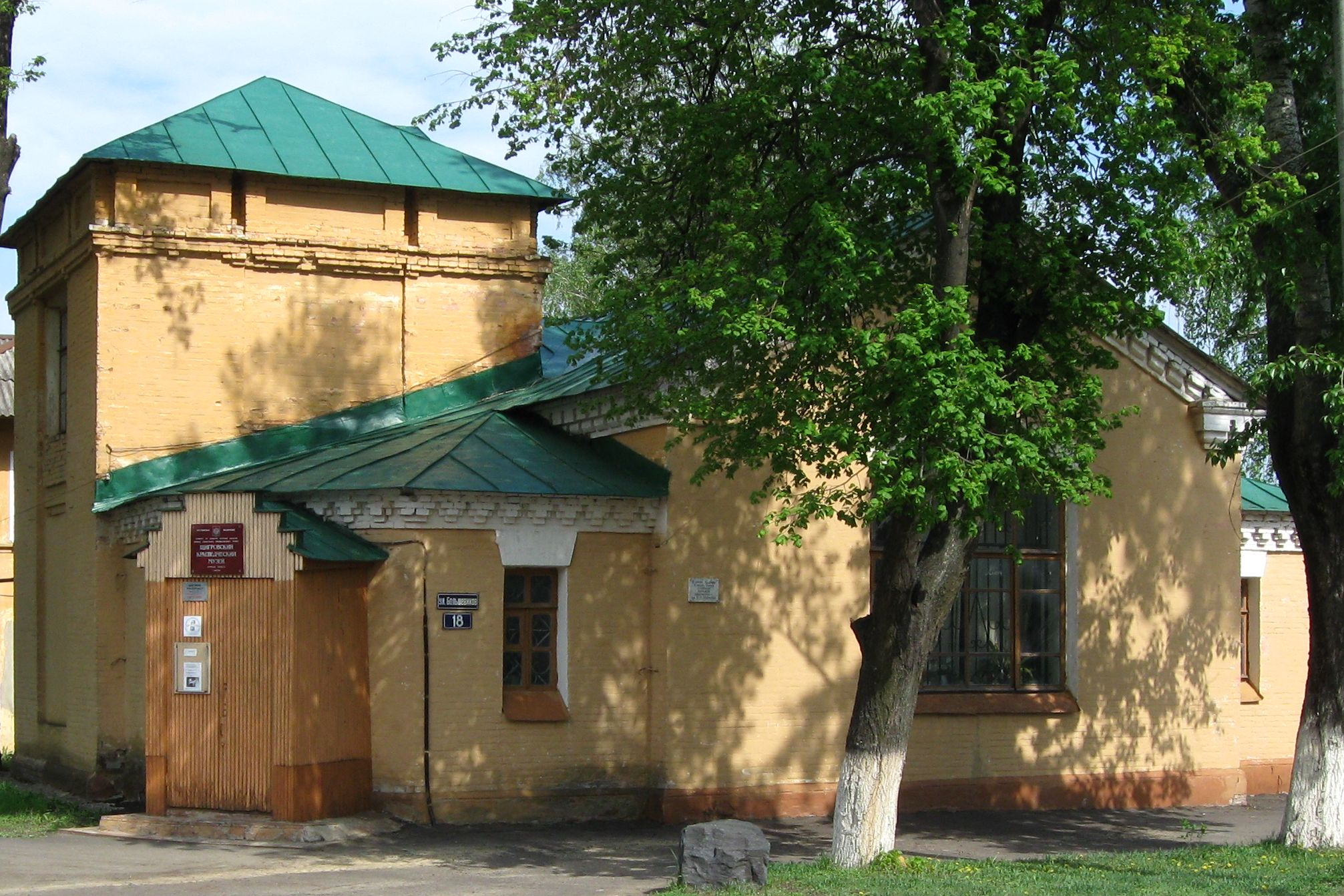 Shchigry Local History Museum